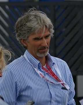 Damon Hill at Silverstone 2008